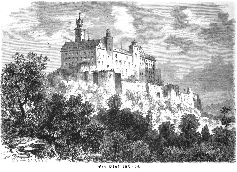 caption: "Die Plassenburg."